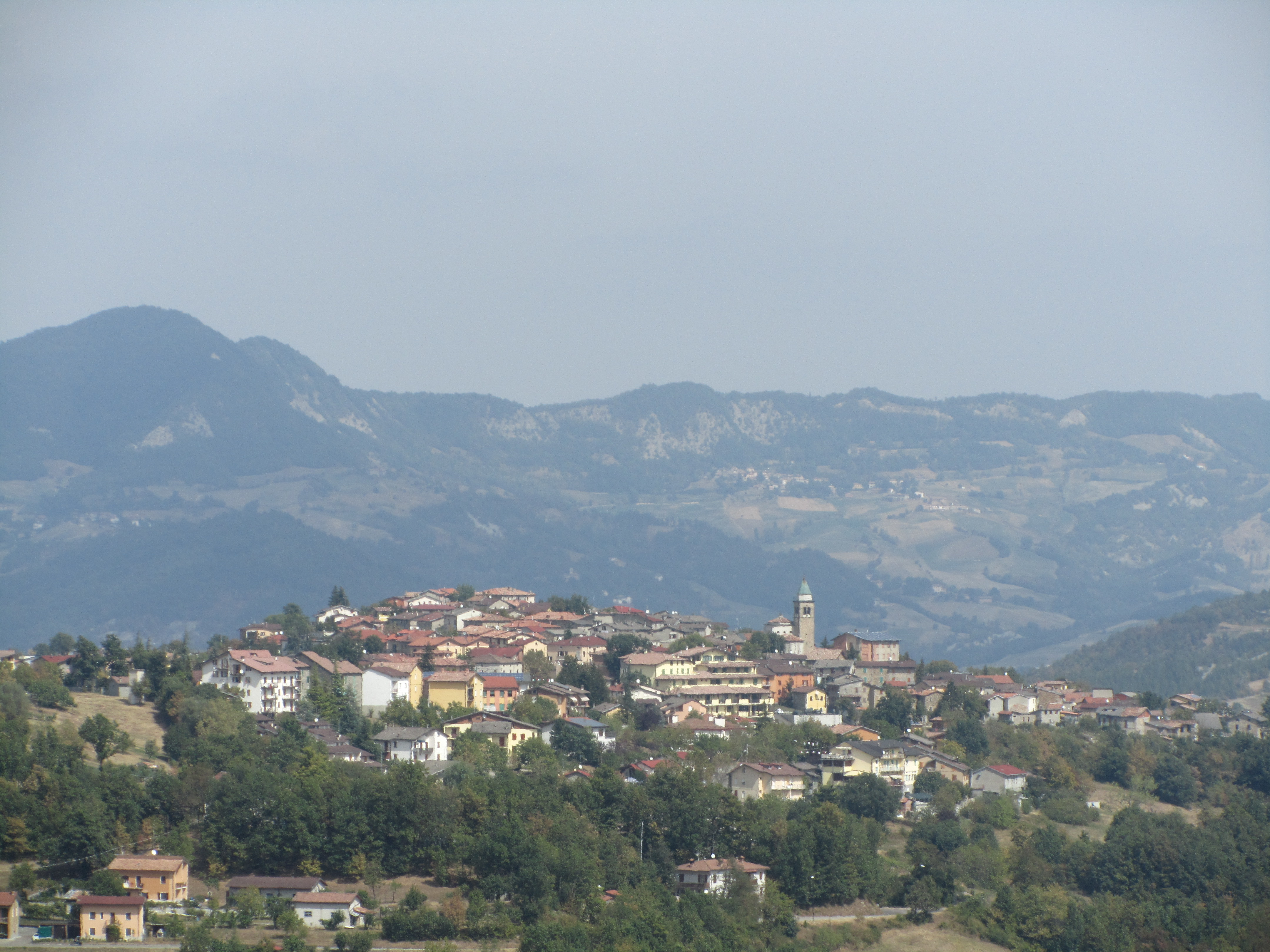 Panorama of Villa Minozzo, province of Reggio Emilia.